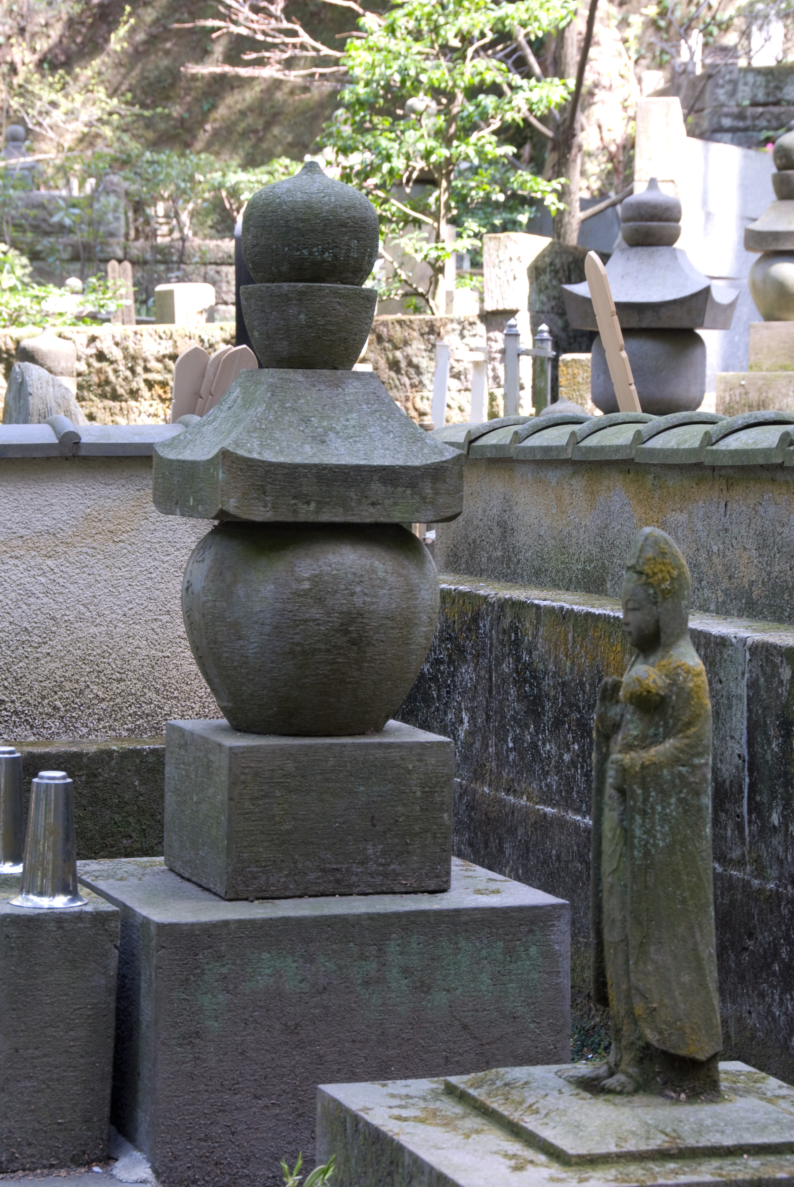 A gorinto, or five-piece stone pagoda, erected for funerary purposes